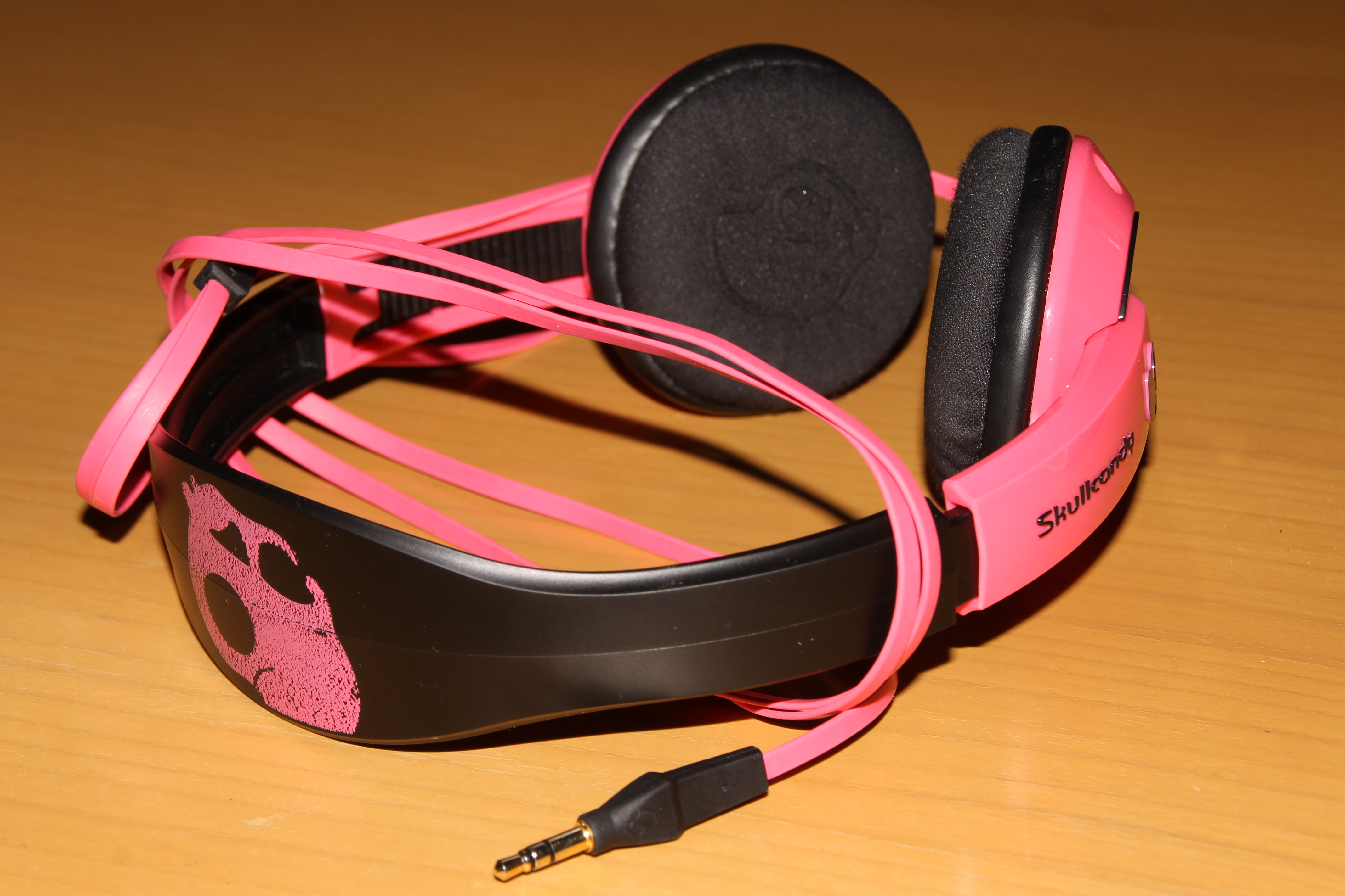 Skullcandy Uprock